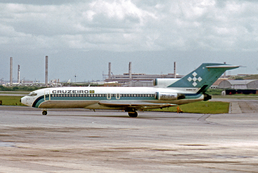 Boeing 727-193 PP-CJH of Cruzeiro at Rio de Janeiro Galeao in 1975